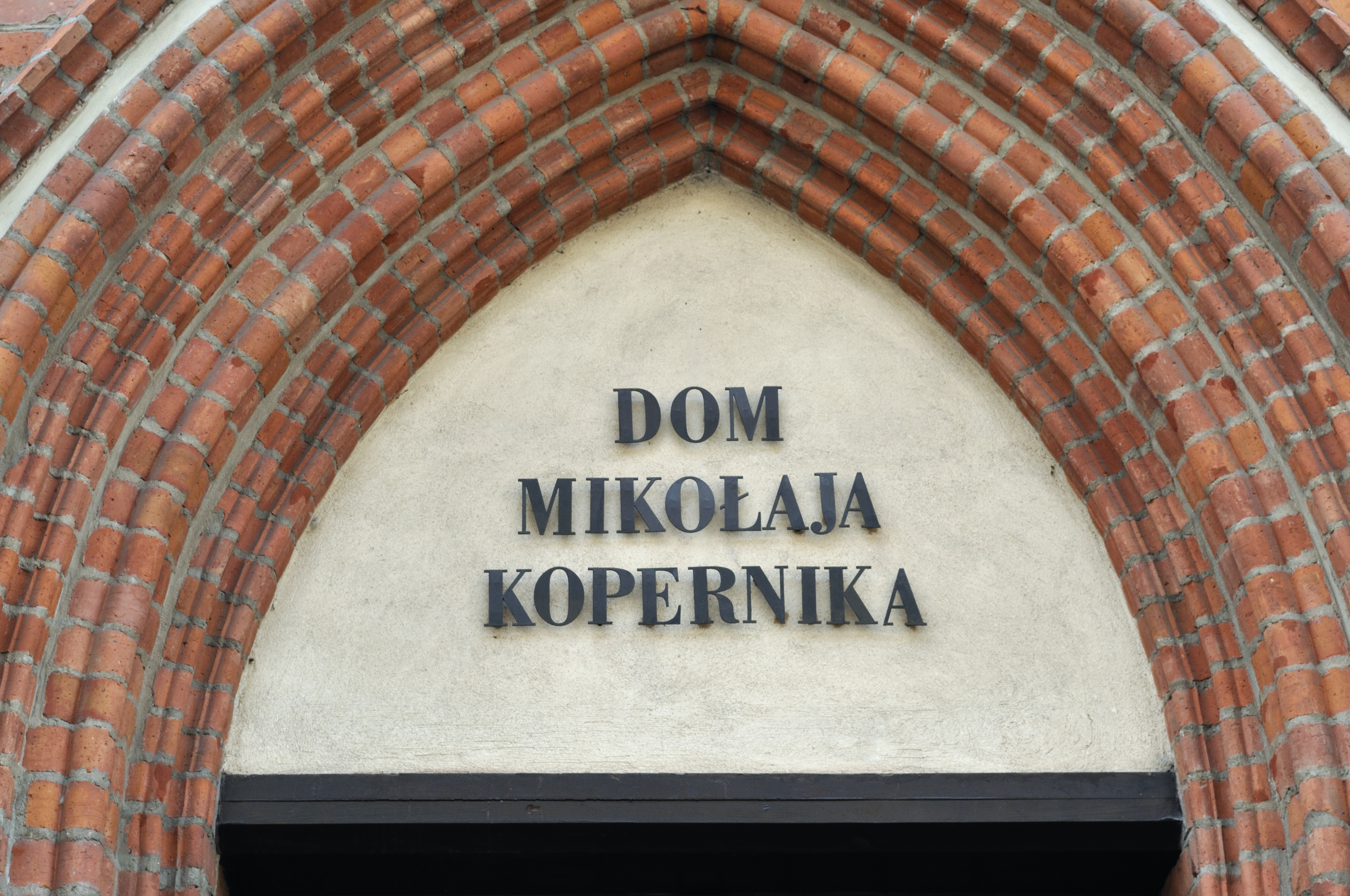 Entrance to Gothic burgher house in Toruń at 15 Kopernika Str., now part of Nicolaus Copernicus native house - branch of Regional Museum. Picture taken in Toruń after Wikimania 2010 conference.